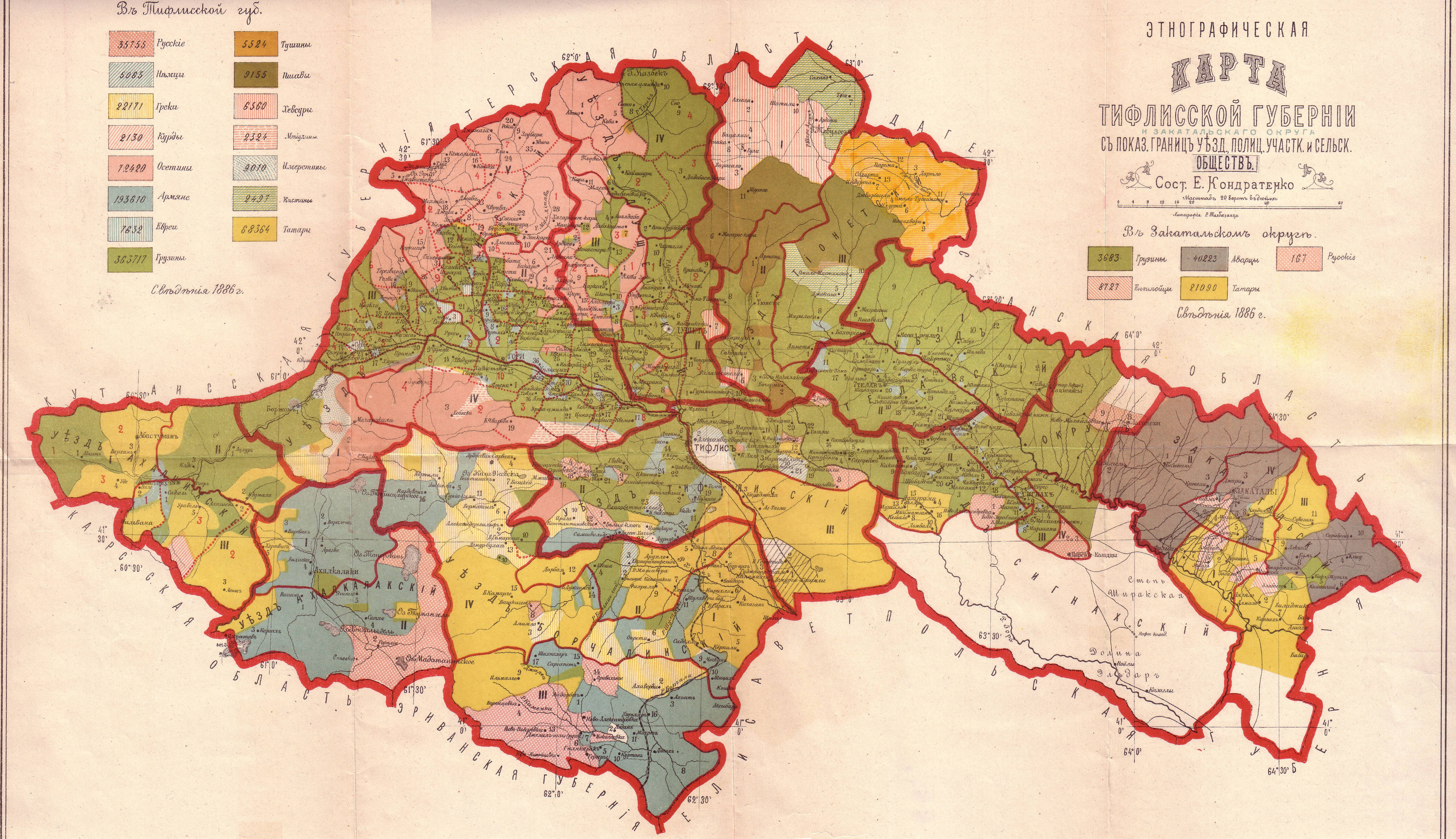 Ethnographic map of the Tiflis Governorate